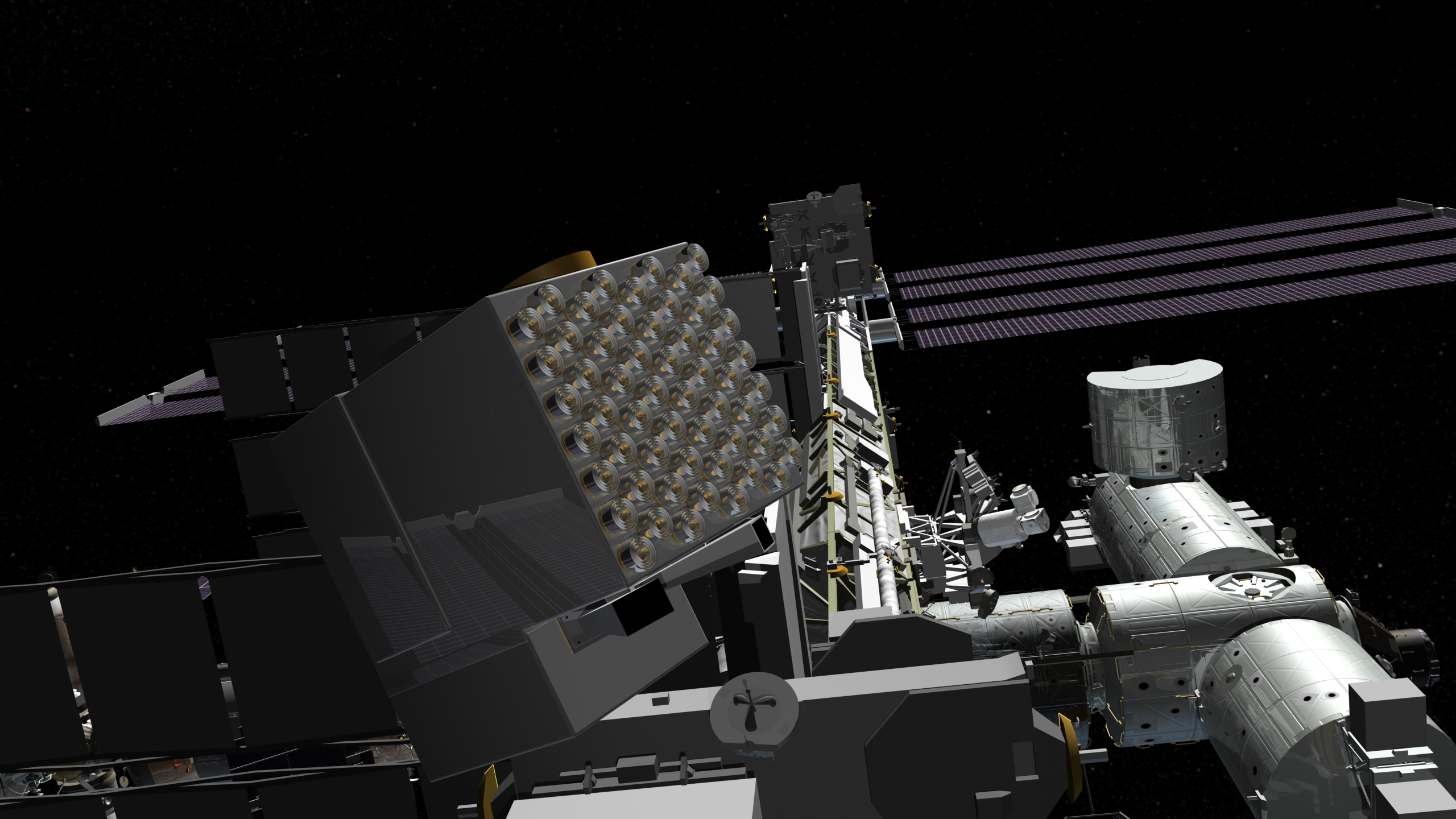 This is an artist's concept of the NICER instrument on board the International Space Station. NICER is the cube in the foreground on the left. The circular objects protruding from the cube are telescopes that focus X-rays from the pulsar on to the detector.